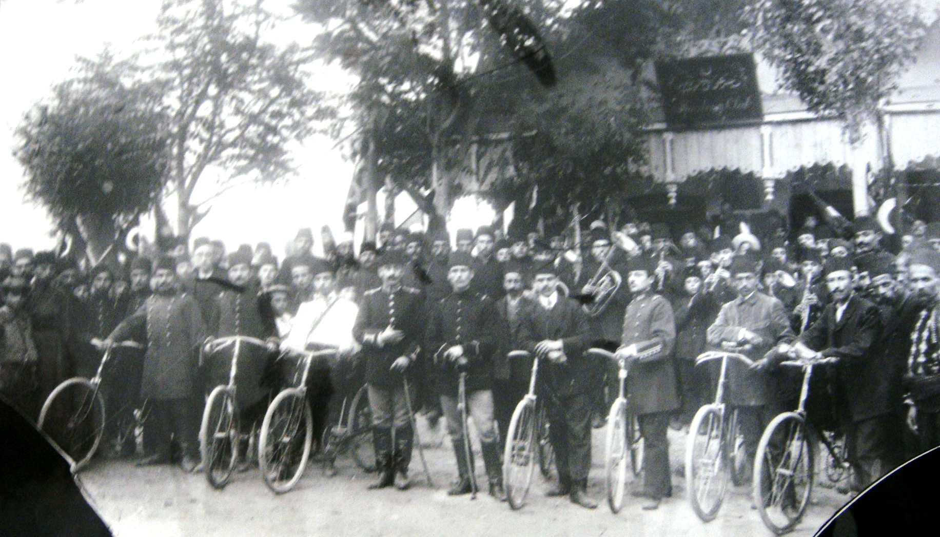 First cycling club in Bitola. In the middle (fourth from right) is Milton Manaki. Recorded on the road which lead to the railway station. (Bitola, 1906) This media file is produced by Wikipedian in Residence in Category:Wikipedian in Residence at DARM in 2016.